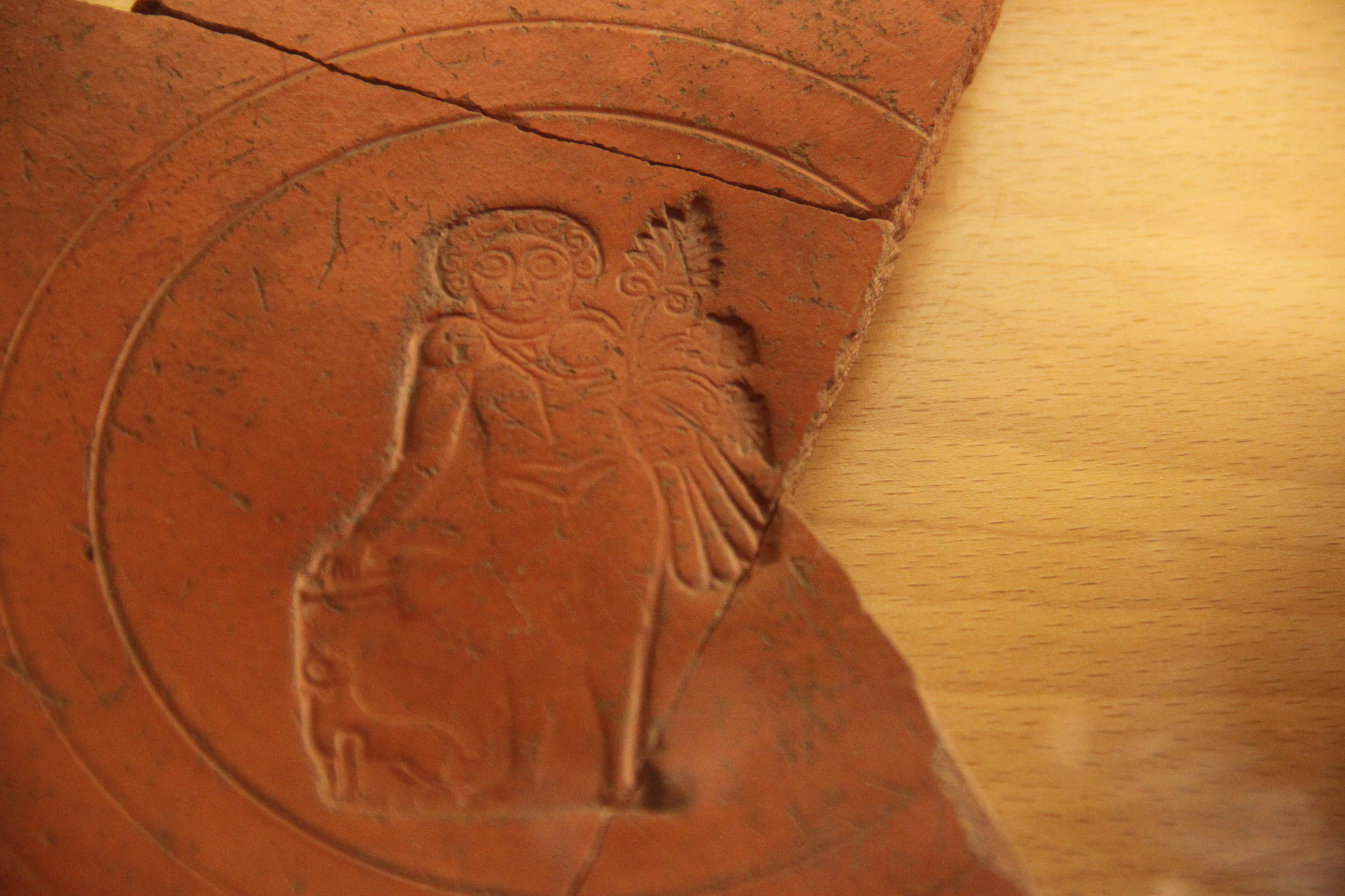 Dionysos on an earth plate, between 550 and 600 after JC.